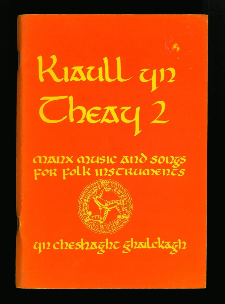 Kiaull yn Cheay 2 ('Music of the Folk 2') by Colin Jerry